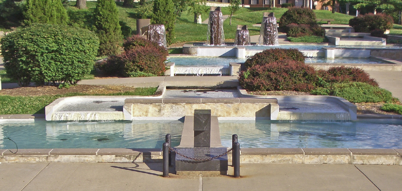 Kansas City Vietnam Veterans Memorial Fountain, Kansas City, Missouri